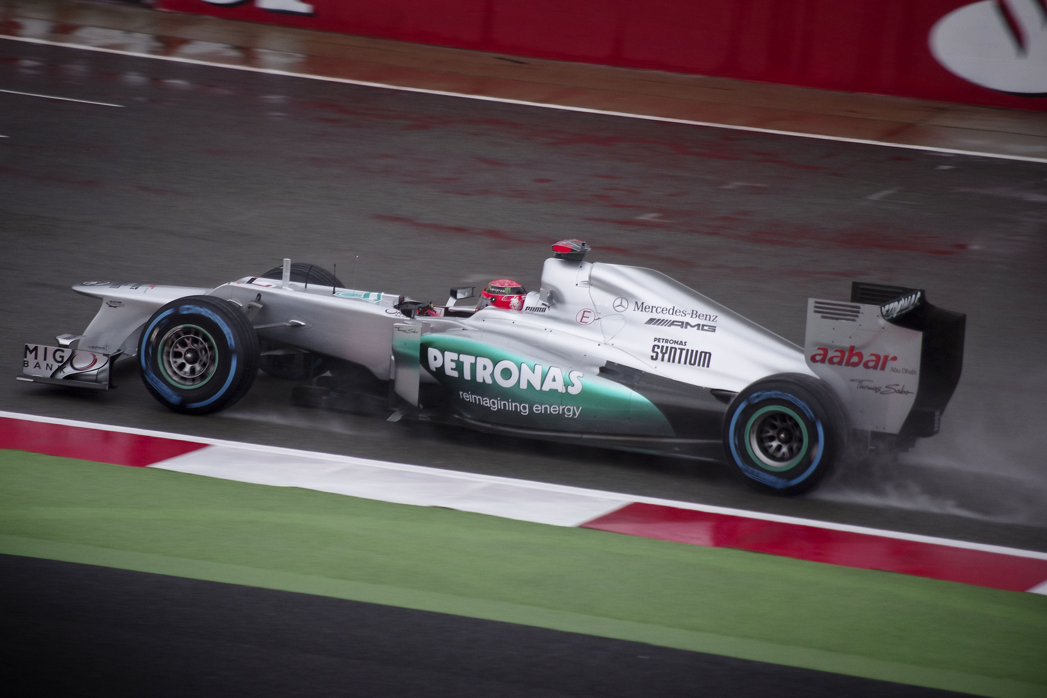 Date Taken:- 06/07/12 Image Shows:- Seven time Formula One (F1) World Champion Michael Schumacher (Germany) takes his Mercedes Formula One (F1) car and his chances around a very wet free practice session one at the Santander British Grand Prix at Silverstone, Northampton, United Kingdom (UK). The German had a tricky session which didn't see much running from any of the 12 teams.